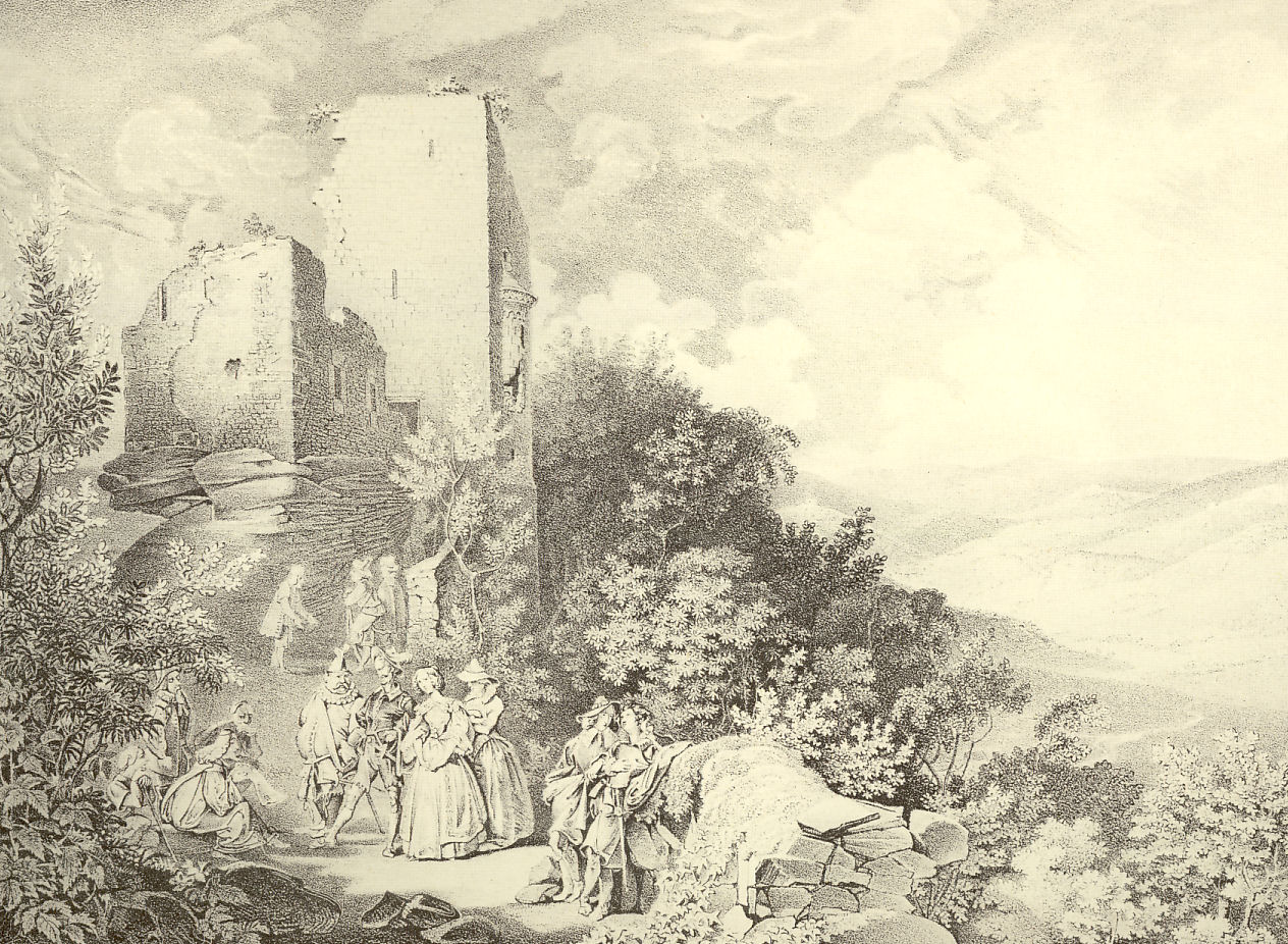 historical sight of the German castle of Trifels by Fried